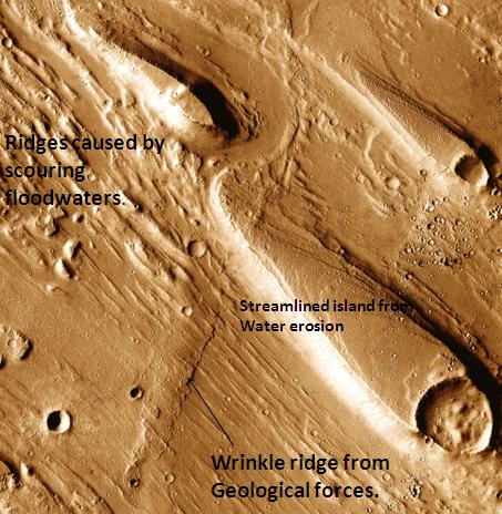 Erosion features in Ares Vallis, as seen by themis. Location is 15.9 degrees north latitude and 30 degrees west longitude. Picture taken with Mars Odyssey's THEMIS. Photo credit NASA/JPL/ASU.